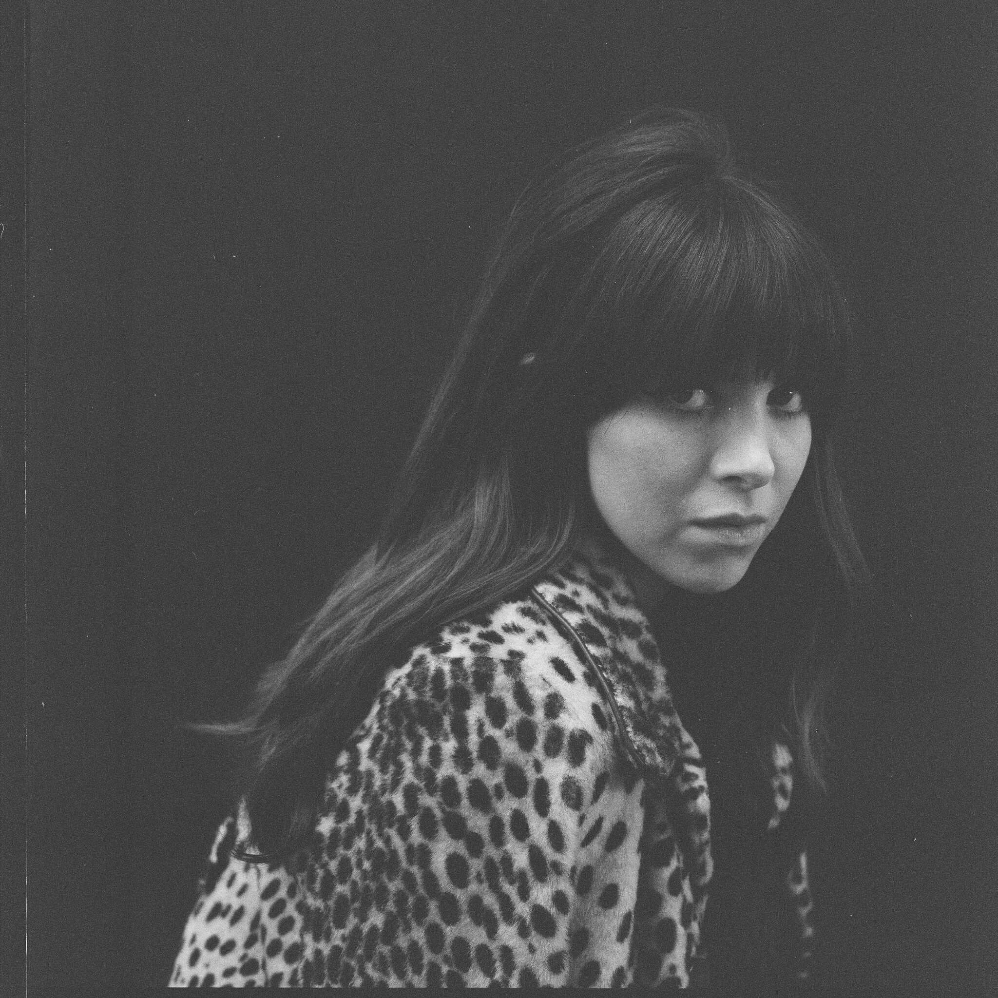 Press shot for Clare Maguire